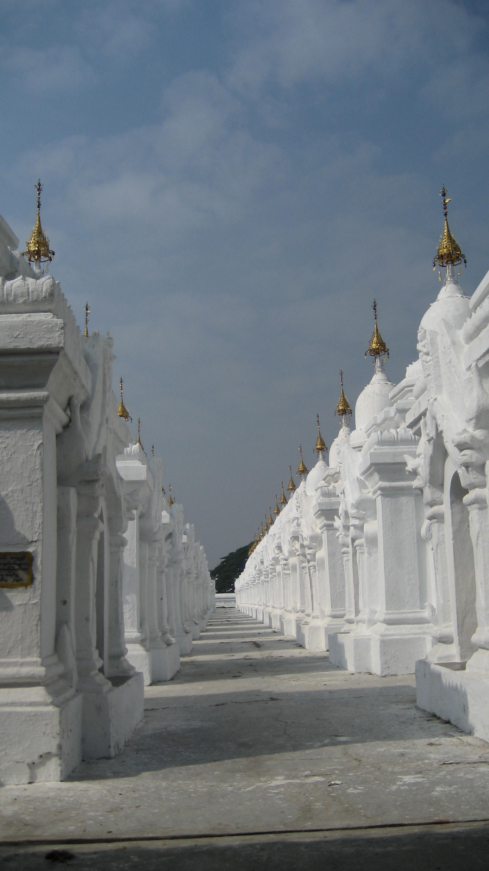 Stone inscription stupas at Kuthodaw